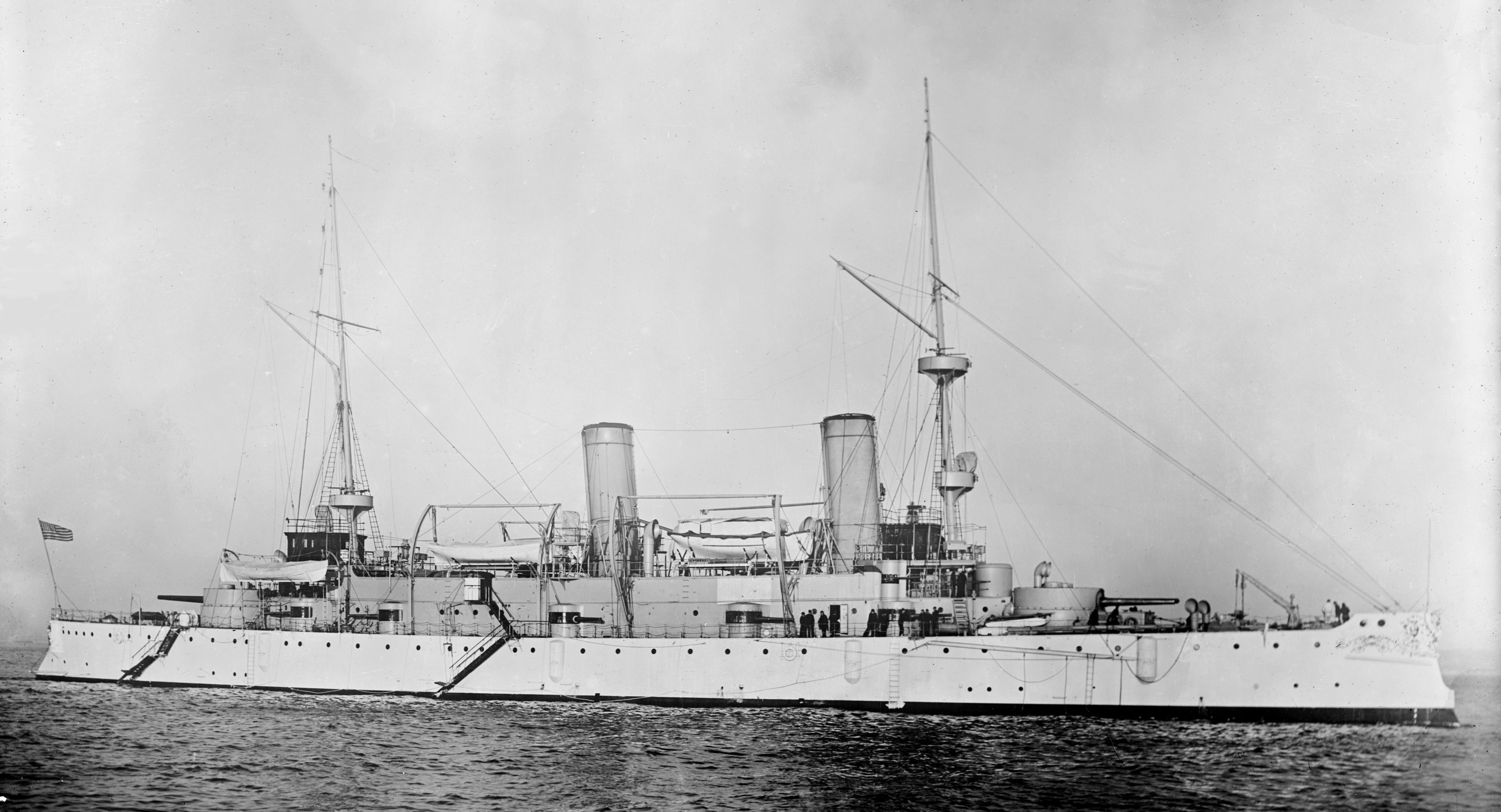 The U.S. Navy protected cruiser USS Olympia (C-6), circa between 1915 and 1920.